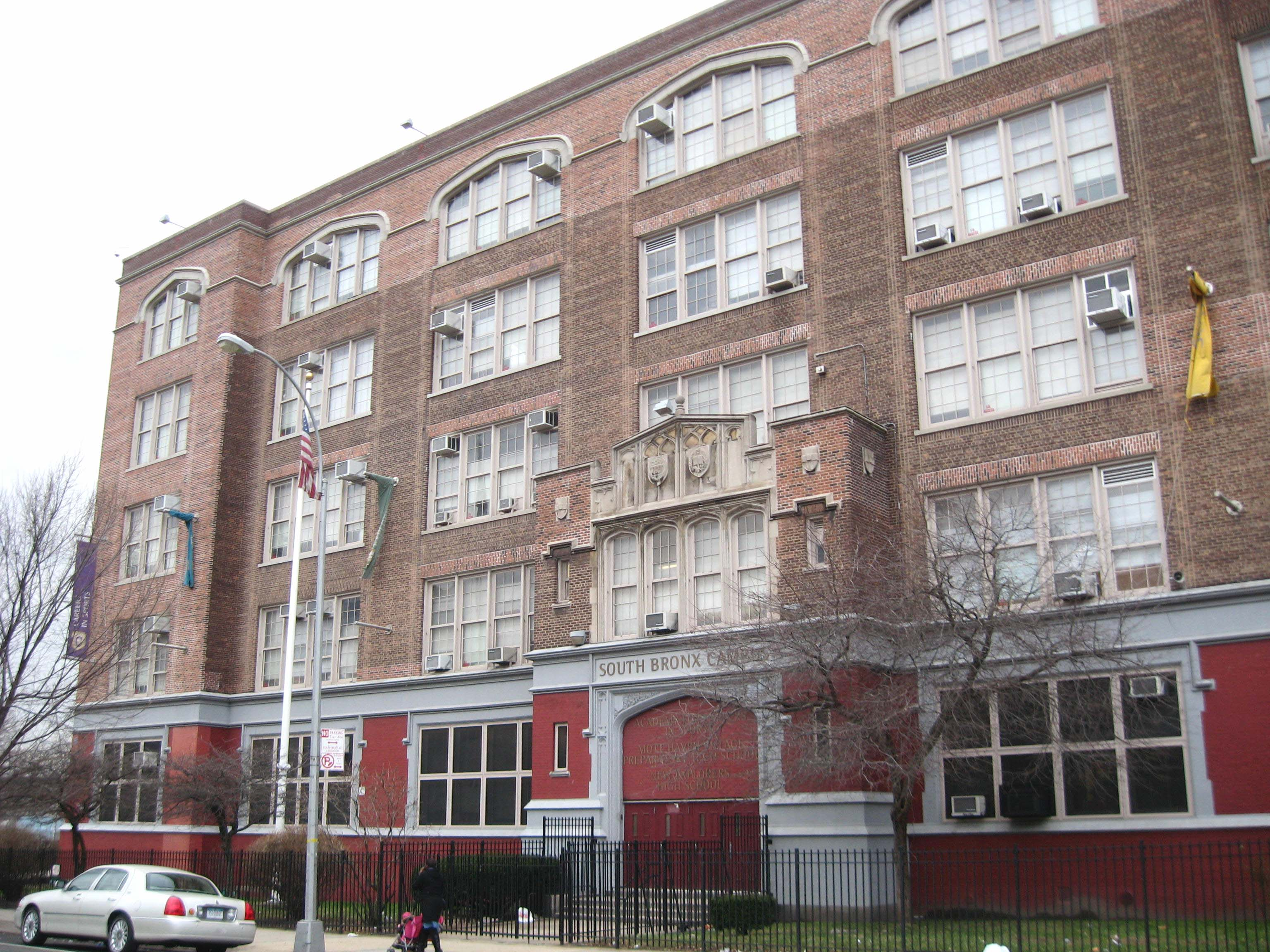 Looking west across St Ann's Avenue at South Bronx Campus of Village Prep at 701 St Ann's on a cloudy afternoon.